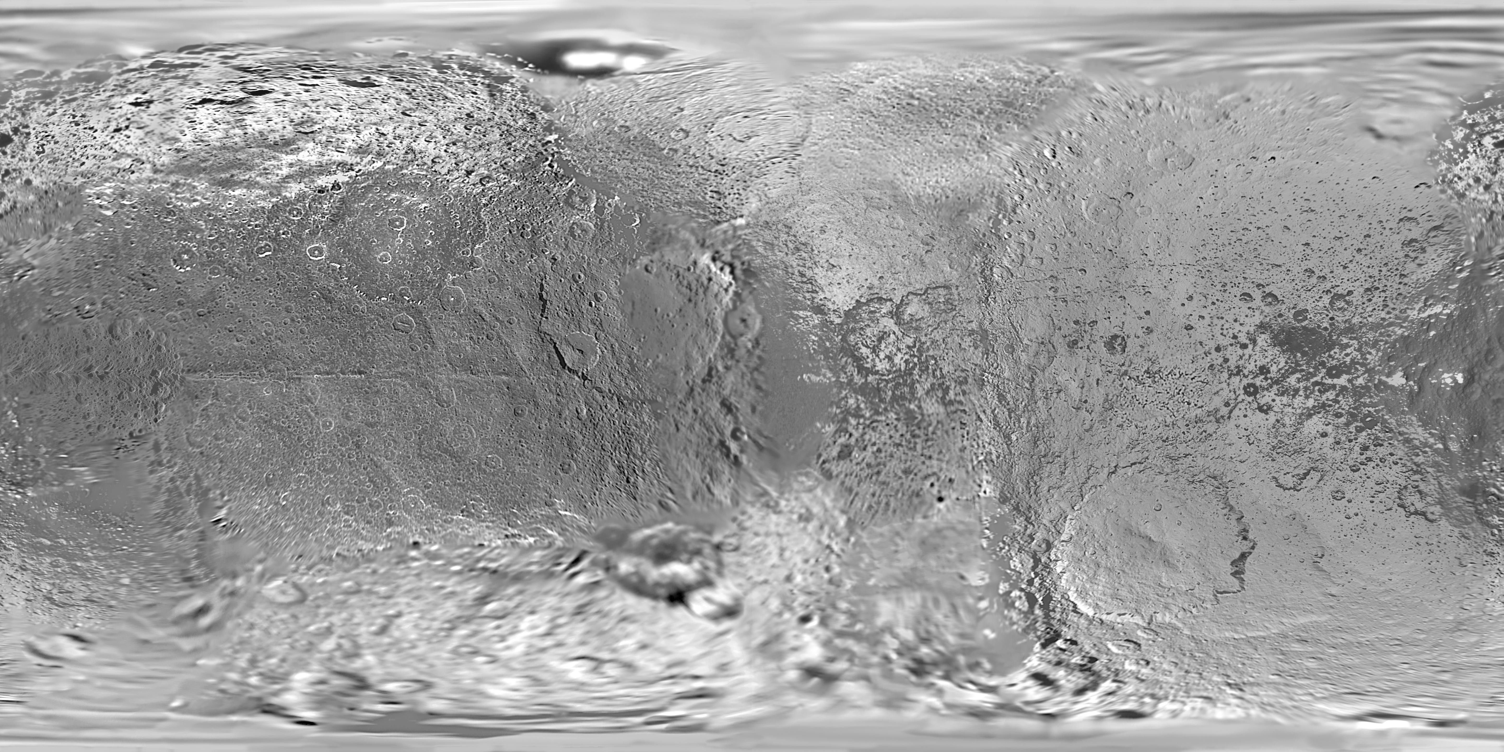 This global map of Saturn's moon Iapetus was created using images taken during Cassini spacecraft flybys, with Voyager images filling in the gaps in Cassini's coverage. Iapetus is the moon of Saturn which, curiously, has one bright hemisphere and one dark. The map is an equidistant (simple cylindrical) projection and has a scale of 803 meters (0.5 miles) per pixel at the equator. Some territory seen in this map was imaged by Cassini using reflected light from Saturn. The mean radius of Iapetus used for projection of this map is 736 kilometers (457 miles). The resolution of the map is 16 pixels per degree. This mosaic map is an update to the version released in January 2008 (see PIA08406). The Cassini-Huygens mission is a cooperative project of NASA, the European Space Agency and the Italian Space Agency. The Jet Propulsion Laboratory, a division of the California Institute of Technology in Pasadena, manages the mission for NASA's Science Mission Directorate, Washington, D.C. The Cassini orbiter and its two onboard cameras were designed, developed and assembled at JPL. The imaging operations center is based at the Space Science Institute in Boulder, Colo. For more information about the Cassini-Huygens mission visit The Cassini imaging team homepage is at